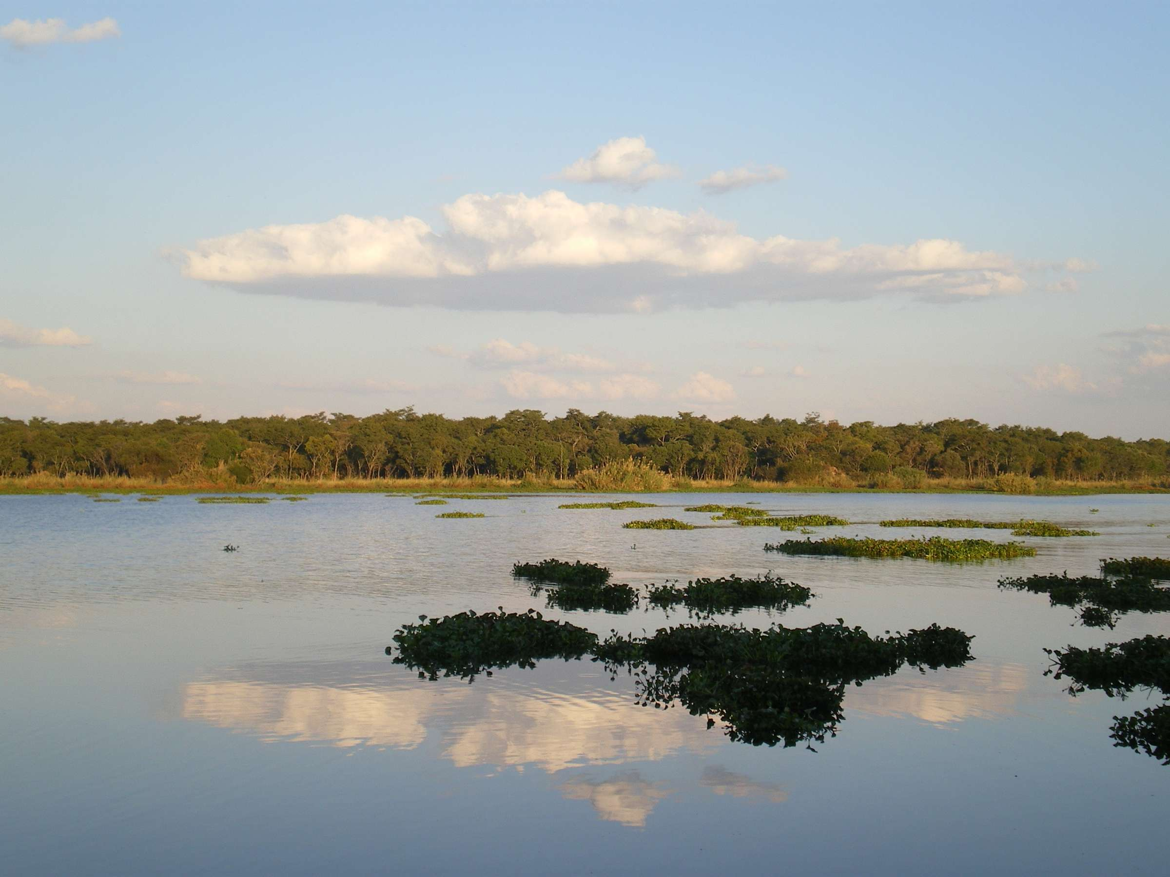 Lake Chivero